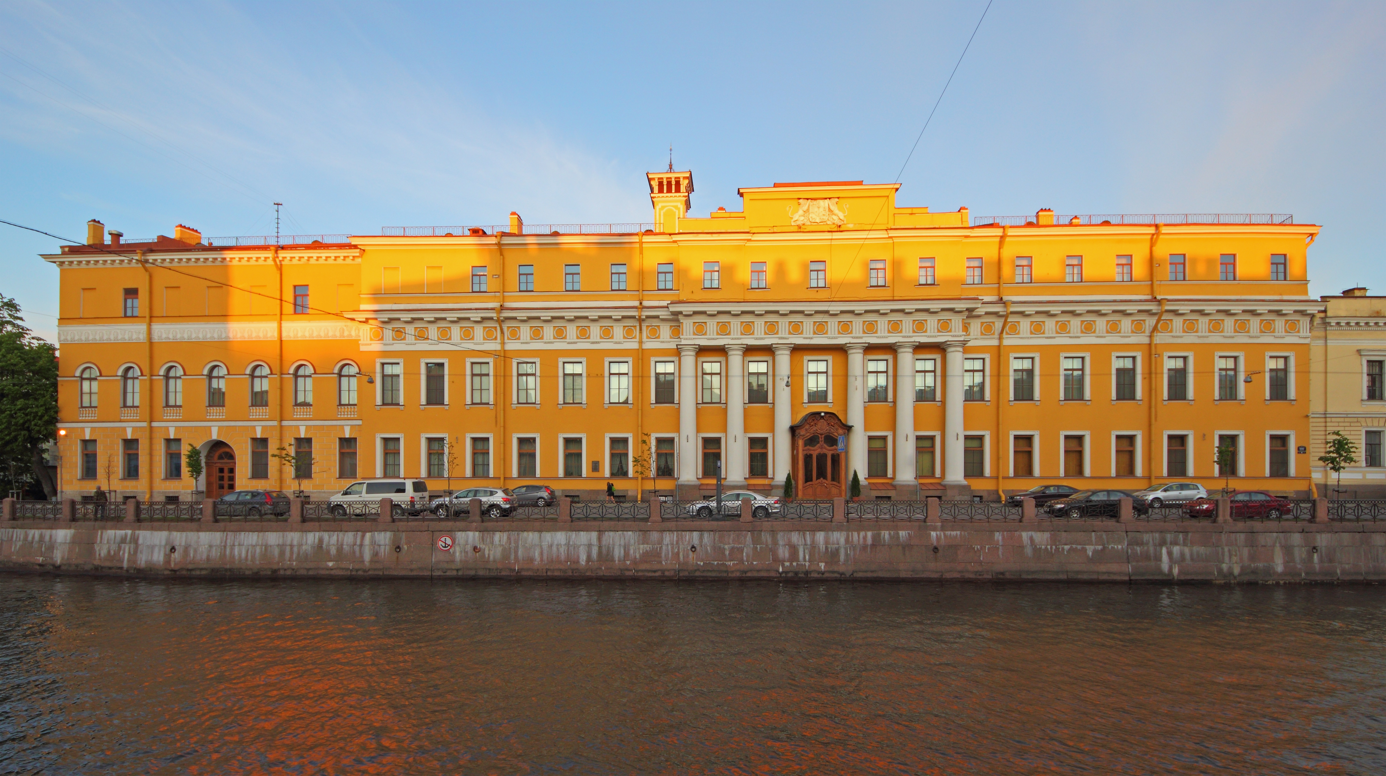 Saint Petersburg, Russia. Moika Embankment, 94. Yusupov Palace.